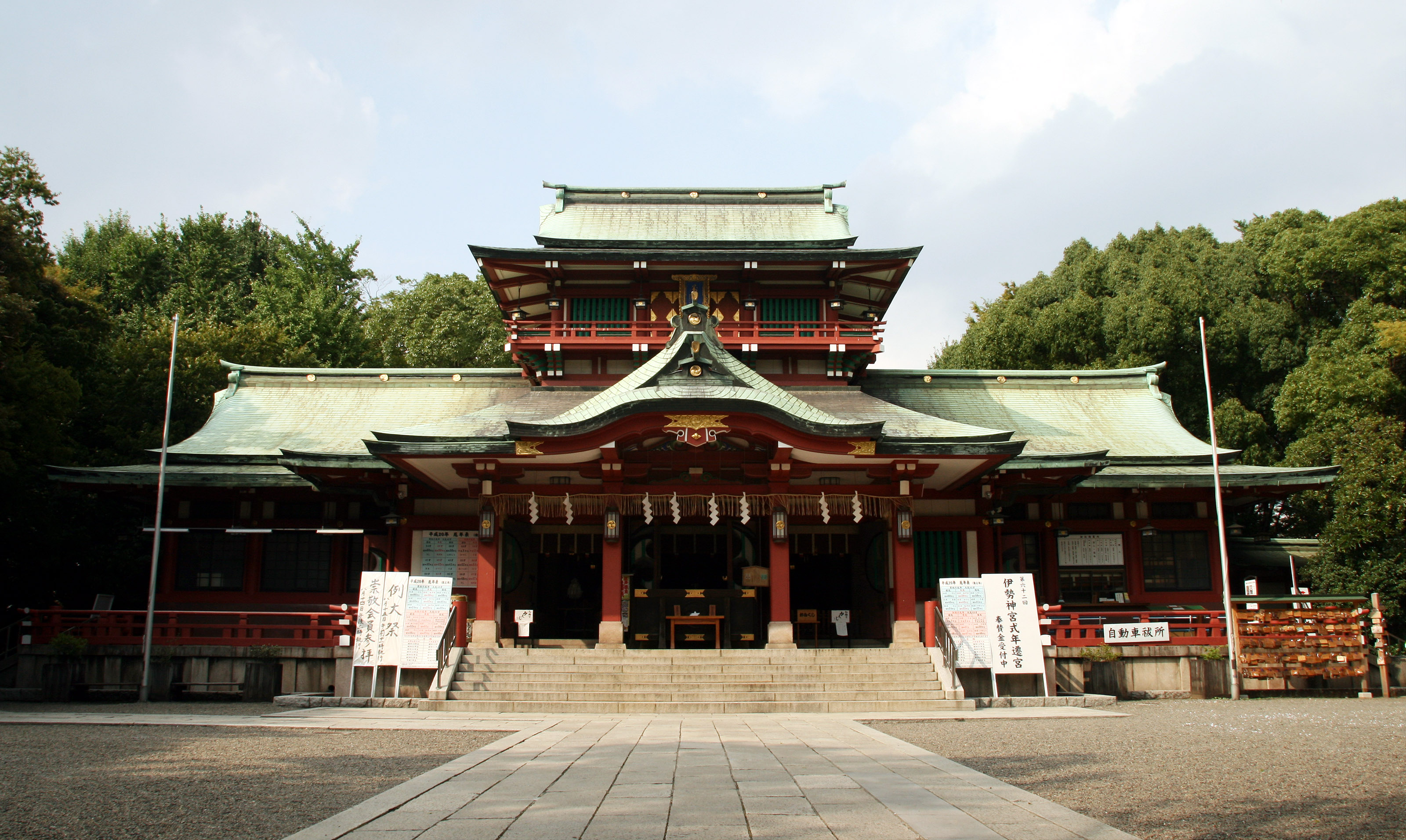 Tomioka Hachiman Shrine in Koto-ku, Tokyo, Japan